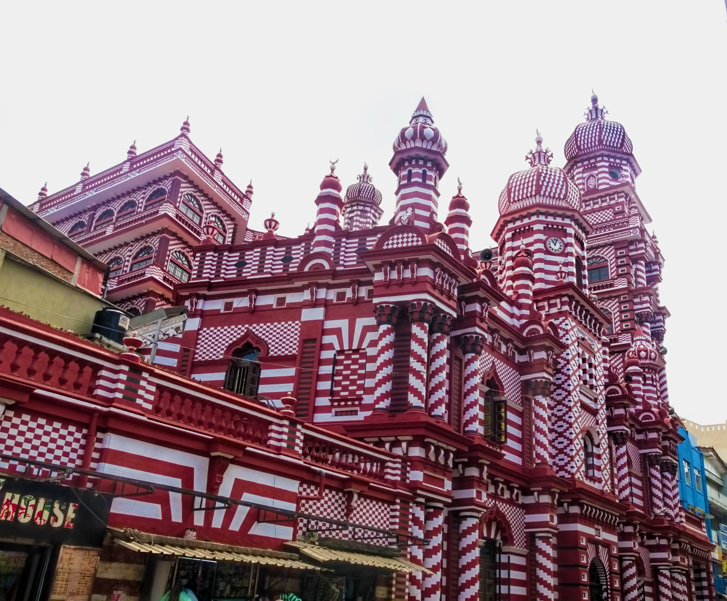 Cropped image of Colombo's Red Mosque